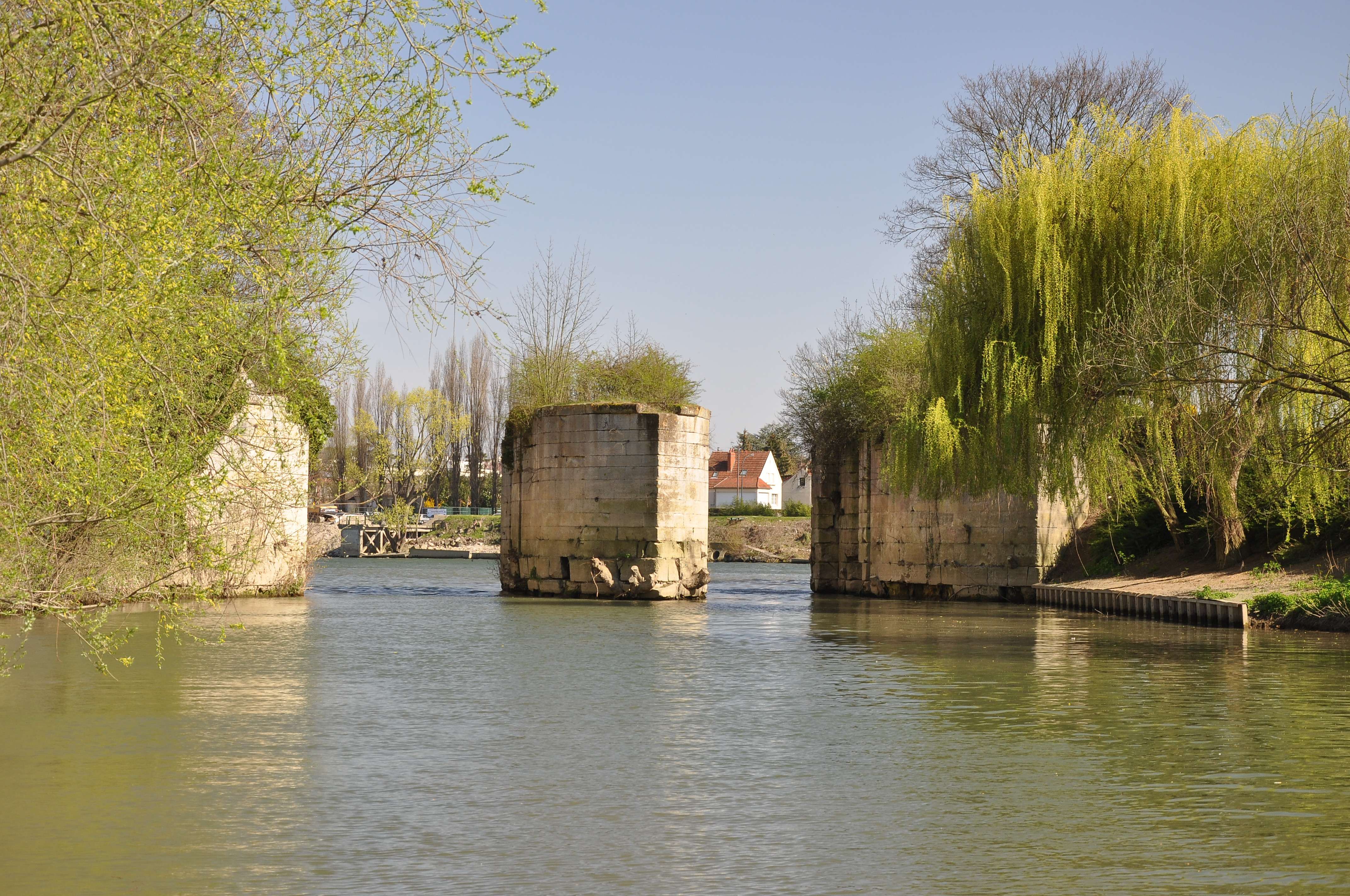 The vestiges of the old mill in Maisons-Laffitte, Yvelines department in France. The building built in 1624 was destroyed in 1885, it's registered on the additional inventory of historic monuments by the French Ministry of Culture.